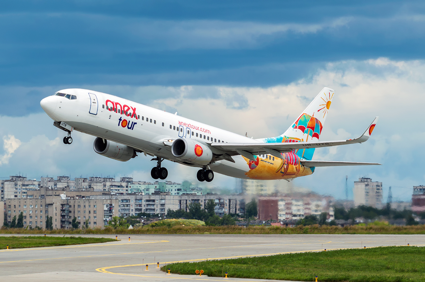 UTair Ukraine Boeing 737-800 taking off at Kharkov Airport